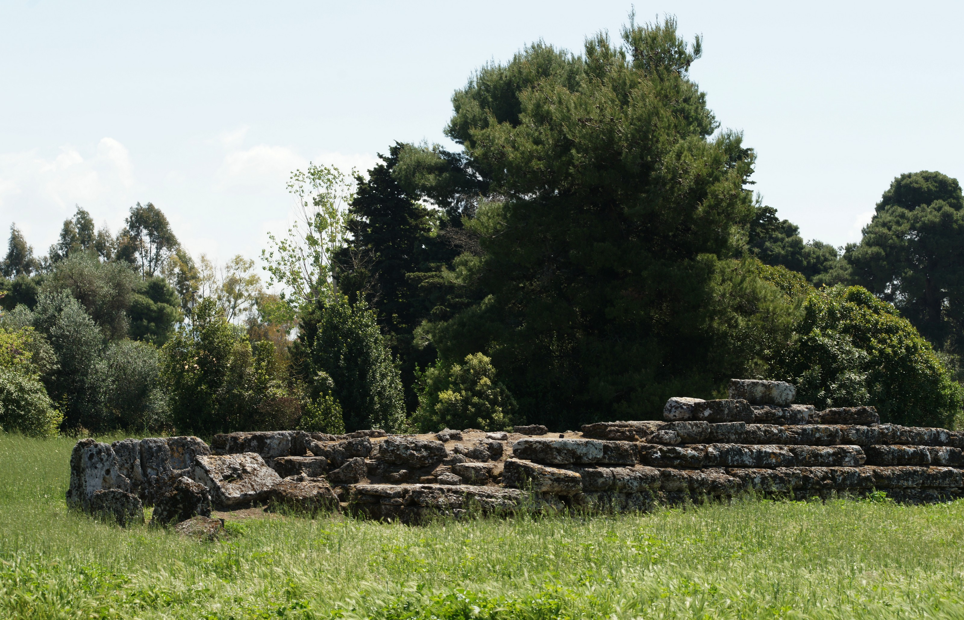 Altar of Temple of Hera II (”Temple of Poseidon”) in Paestum (Poseidonia).